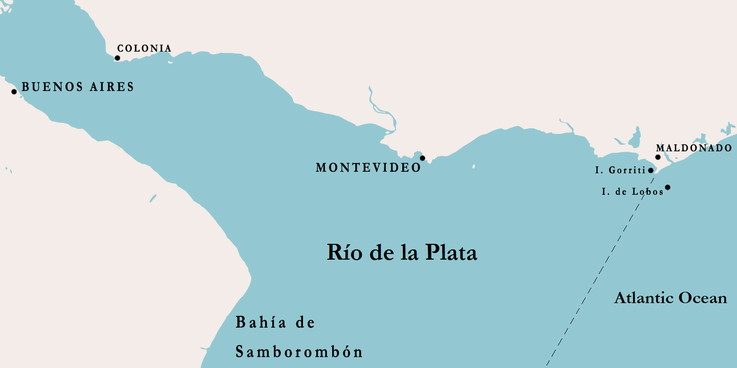 Location of Lobos and Gorriti Islands, Uruguay